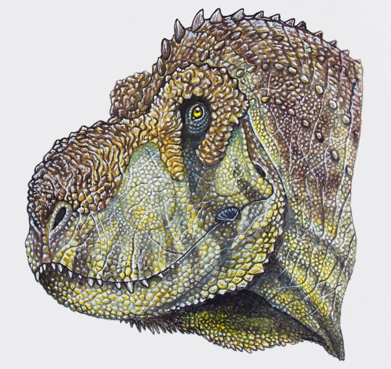 Hypothetical reconstruction of Pycnonemosaurus showing the soft tissues on the head inferred from osteological morphology of the skull.